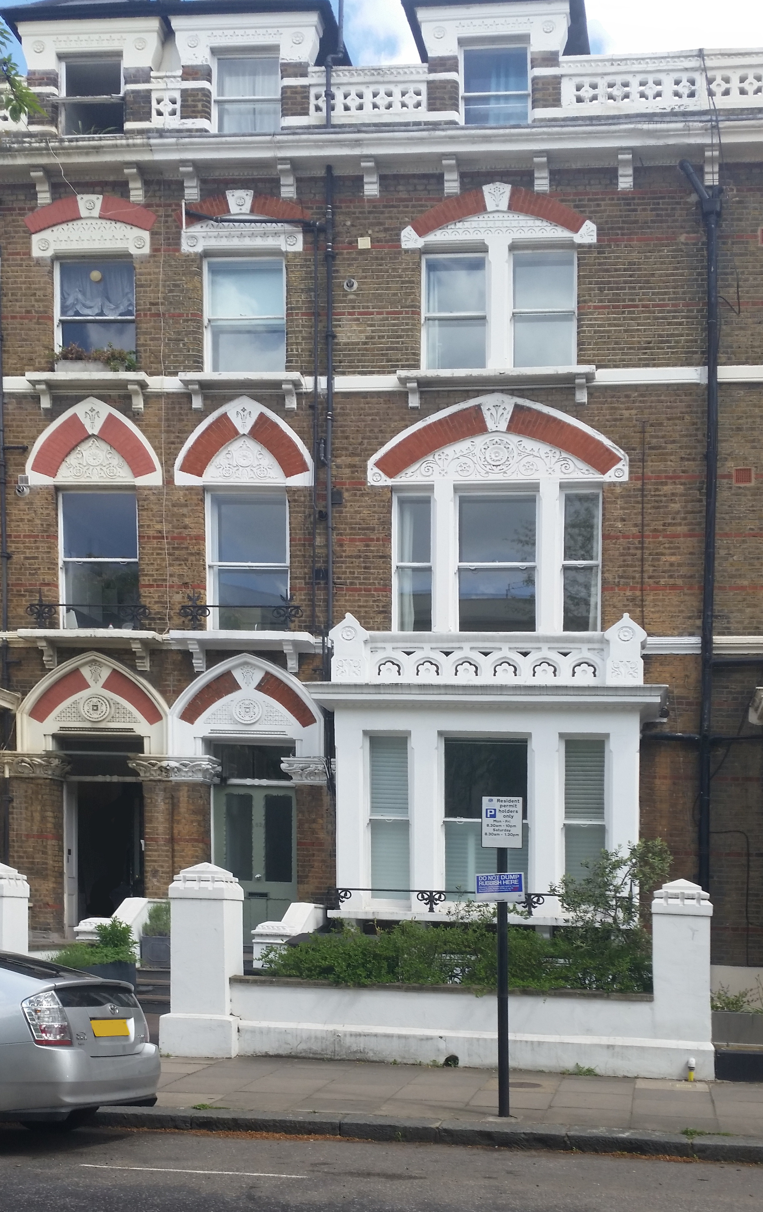 82 Holland Road, London, E14 (Percy Glading's safe-house)